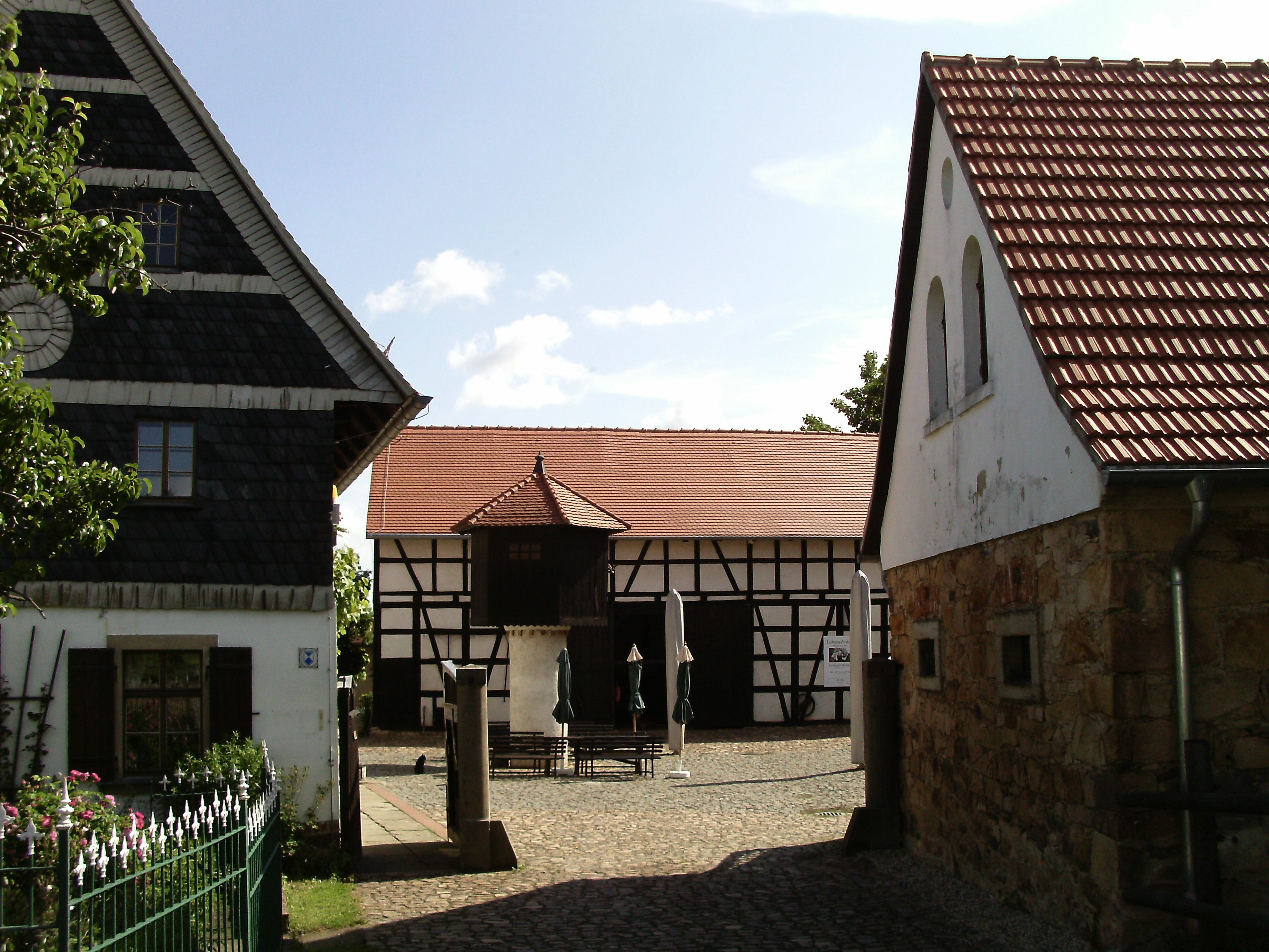 Folklore museum in Wyhra (Borna, Leipzig district, Saxony)